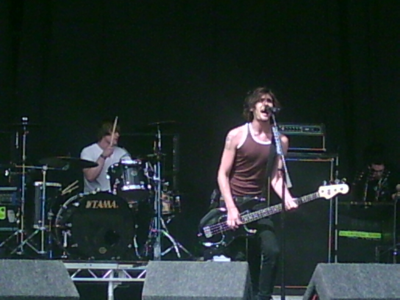 The All-American Rejects, Leeds Festival, 2005